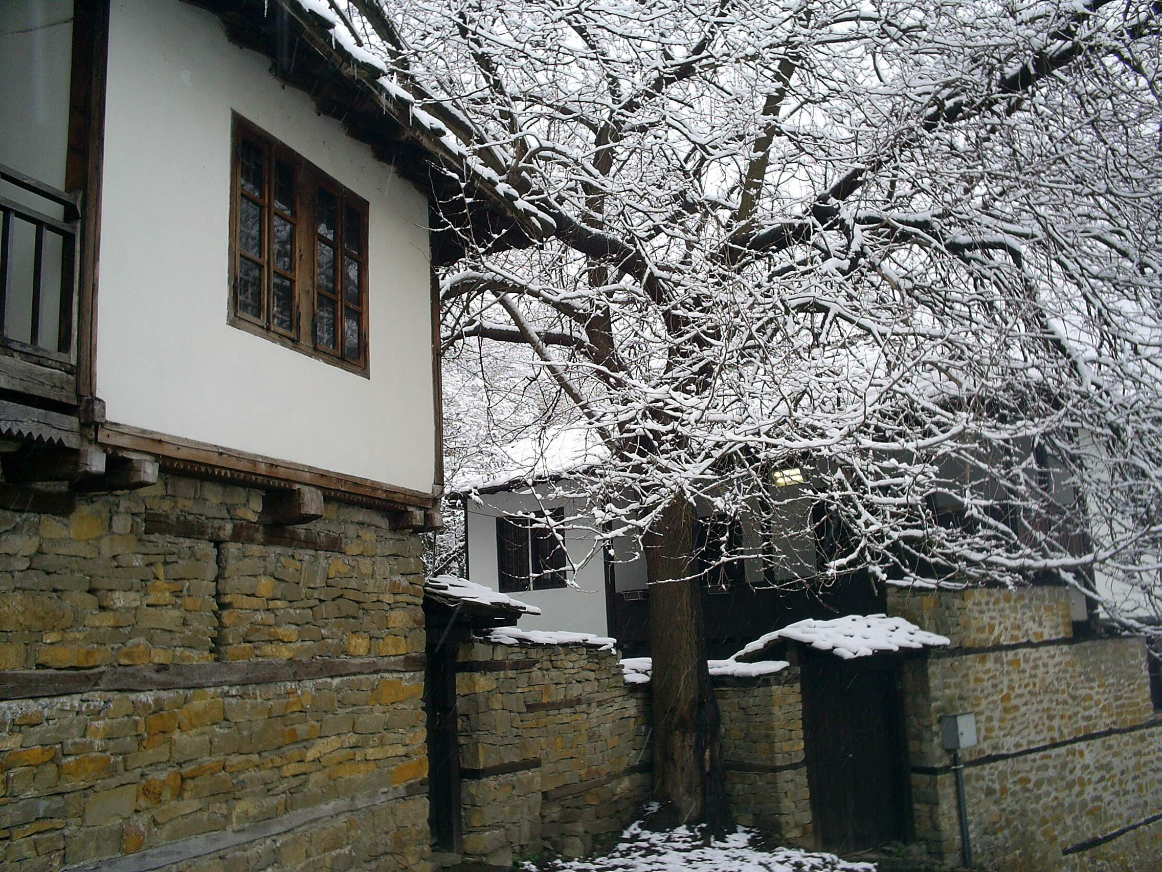 Architectural and historical reserve Varosha, Lovech, Bulgaria